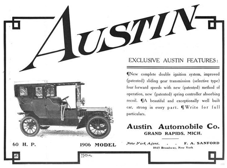 Austin Automobile Company of Grand Rapids, Michigan - 1906